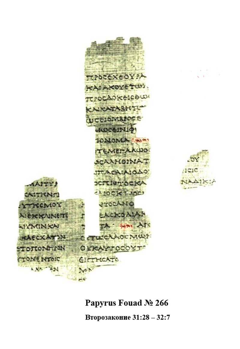 Fouad Inv.266, which contains the text of the name of God in the Hebrew language יהוה fragment of Deuteronomy 31:28 - 32:7